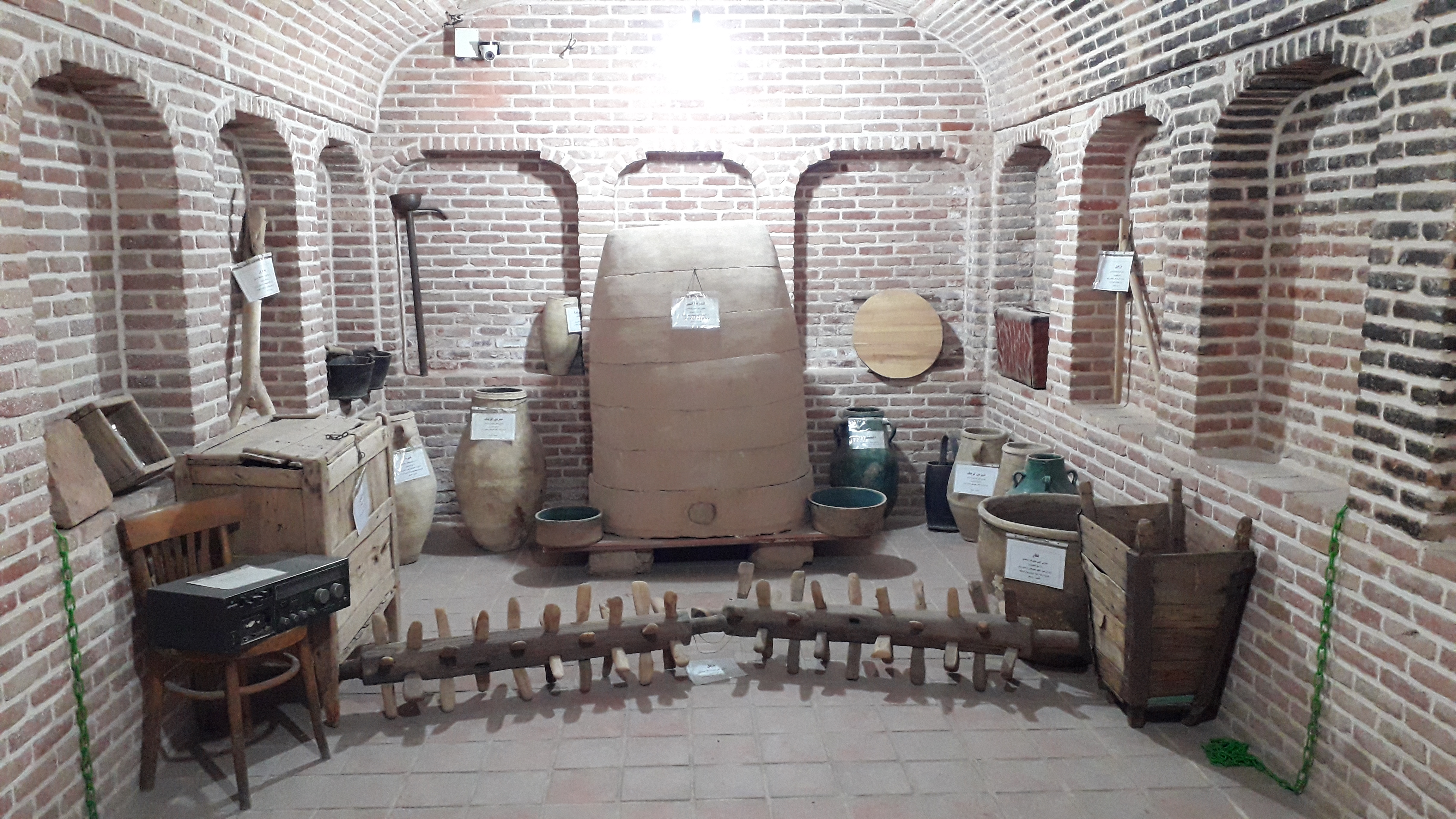 Agricultural equipment in Esfarvarin in 200 Years ago.